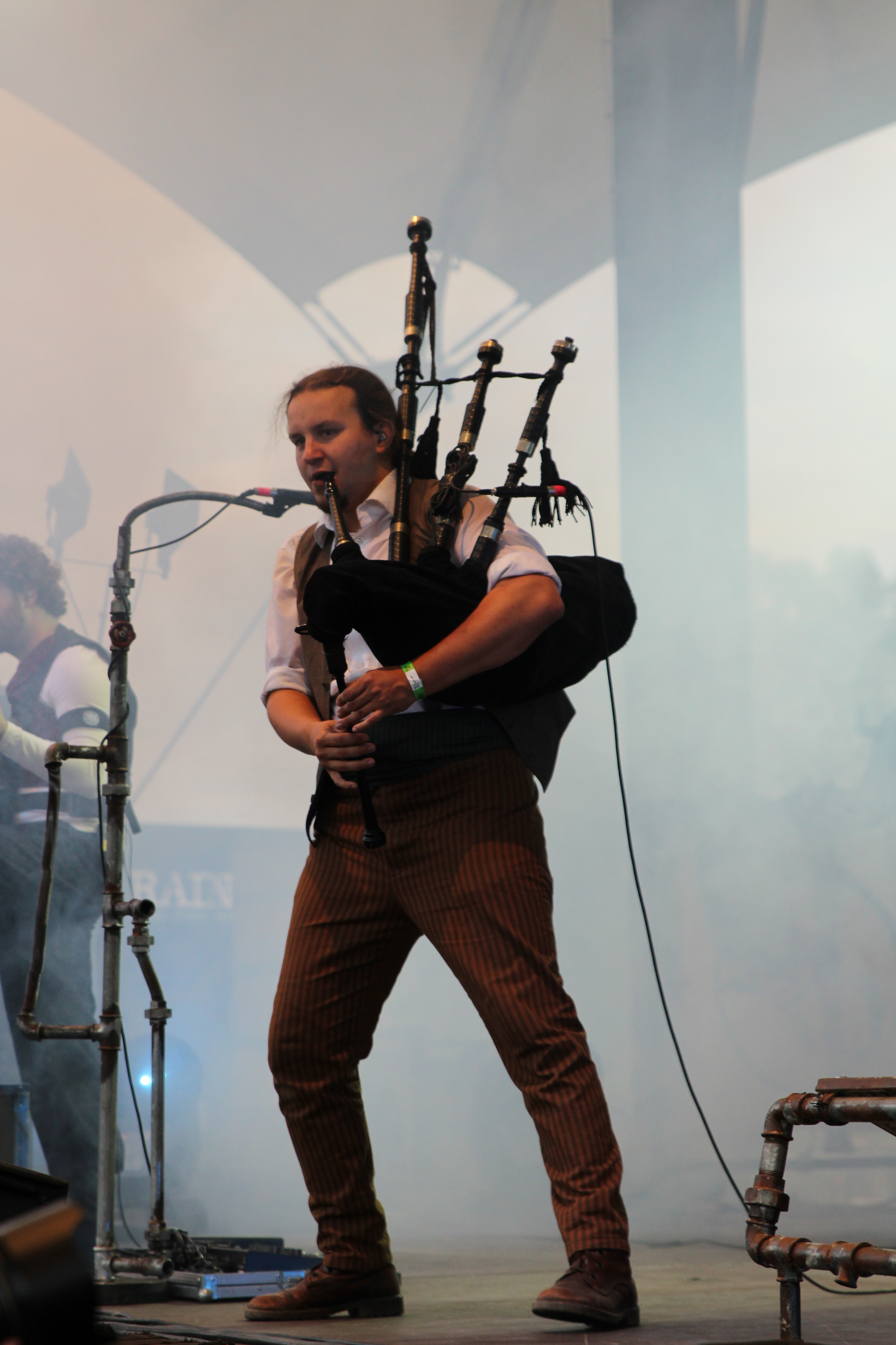 The German medieval Rockband Saltatio Mortis at the Blackfield Festival 2014 in Gelsenkirchen